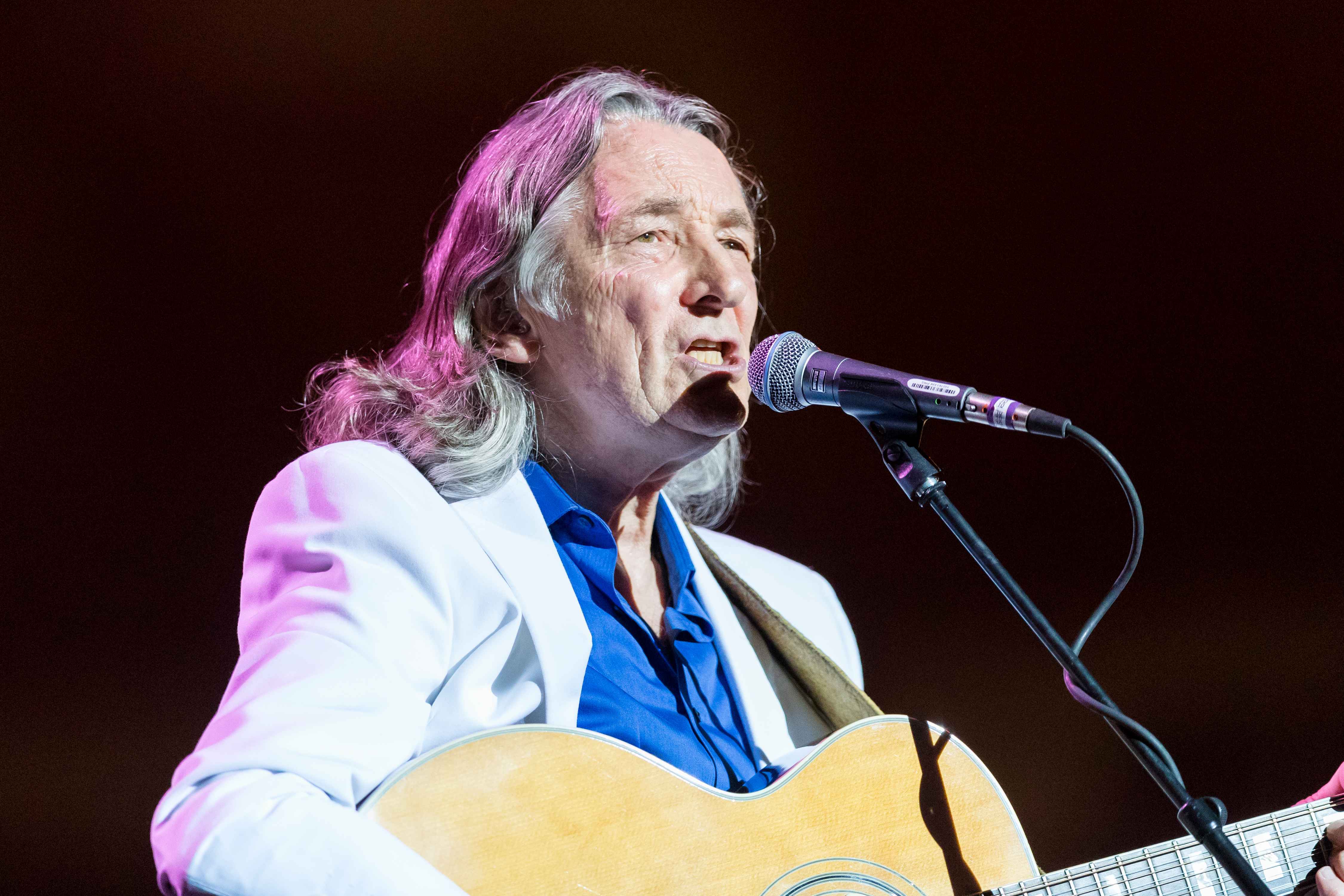 Roger Hodgson during Night of the Proms at SAP Arena, Mannheim, Baden-Württemberg, Germany on 2017-12-22, Photo: Sven Mandel